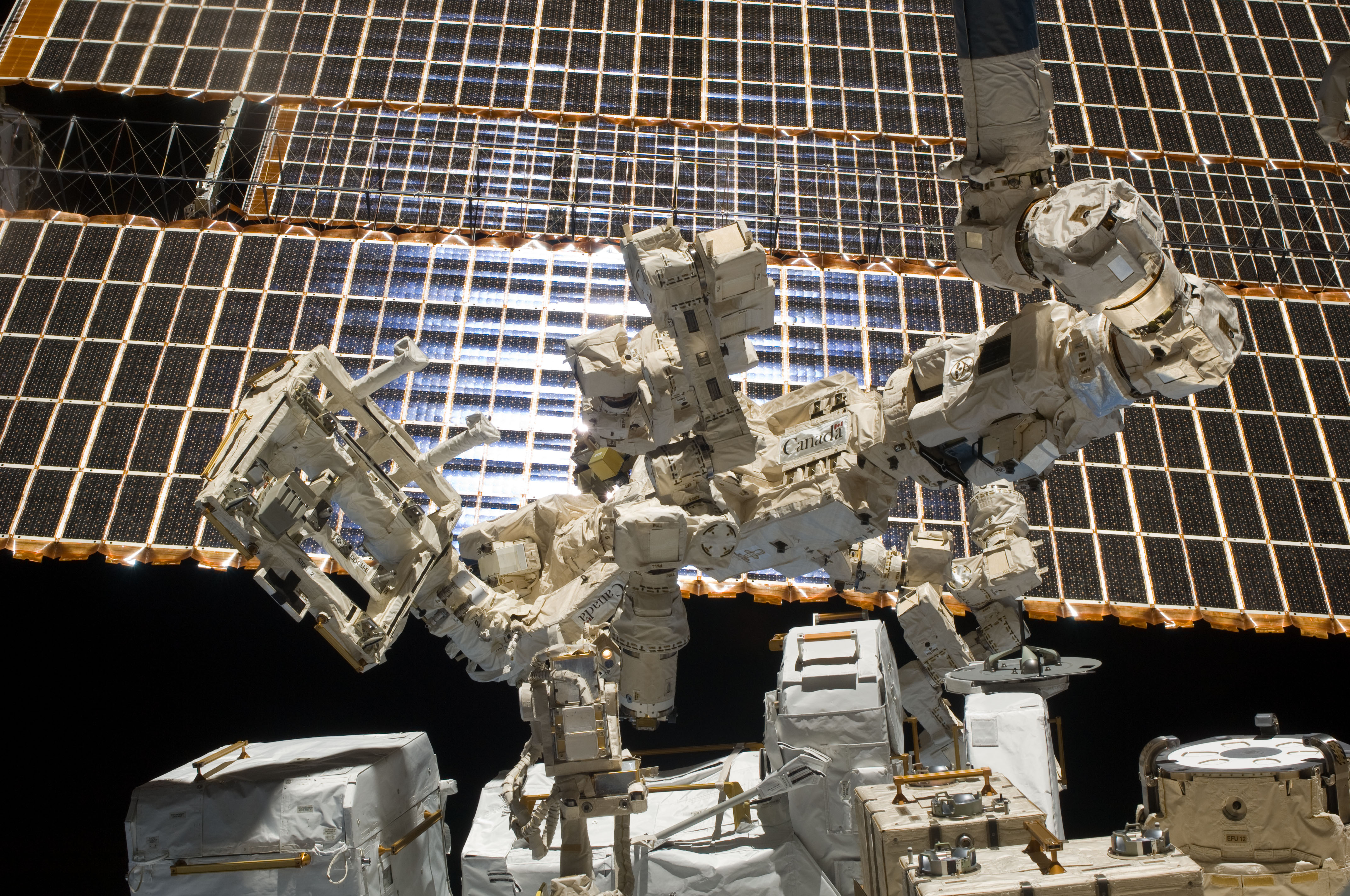 Dextre, the Canadian Space Agency's robotic "handyman", is featured in this image photographed by an Expedition 26 crew member aboard the International Space Station.